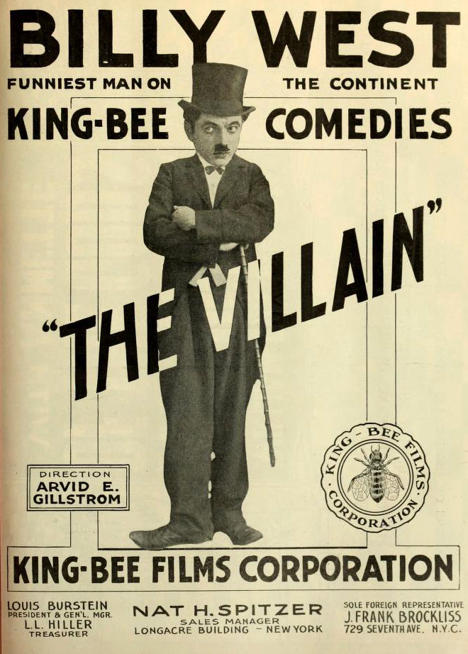 Advertisement in Moving Picture World, July 1917 for the American film The Villain (1917) with Billy West.